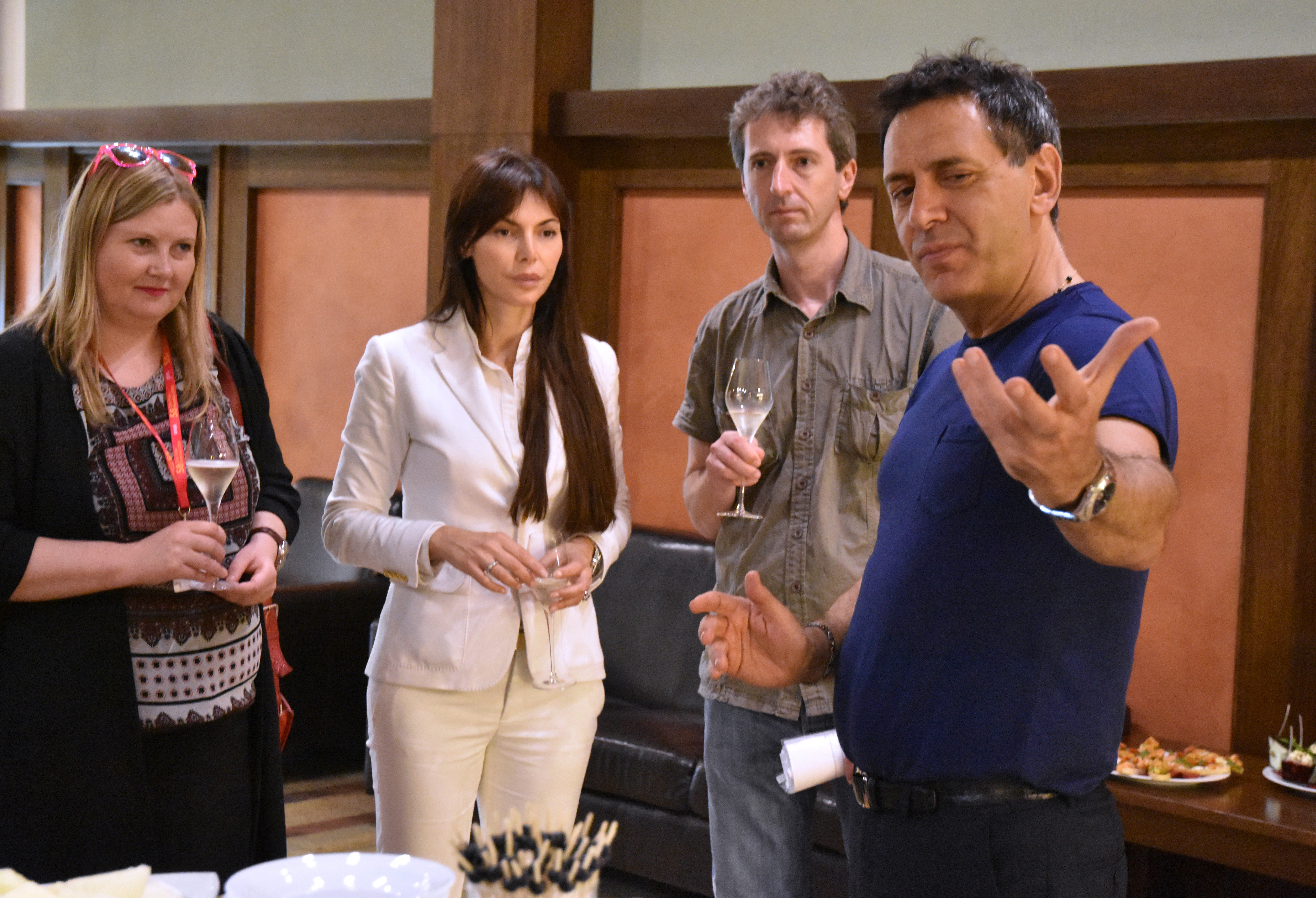 Andrea Morricone composer, Lubomir Haltmar director, Cinzia Chiari assistent at Film Festival Czech republic 2018 Premiere of 72 Hours in Bangkok